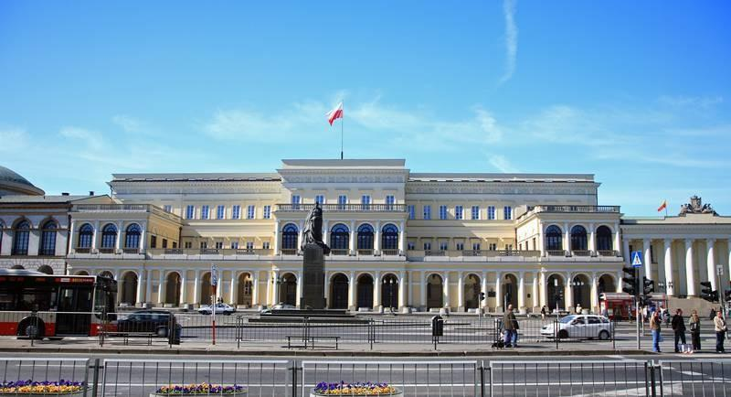 Warsaw, Poland Ewa and Marek Wojciechowsy form with the permission of the author